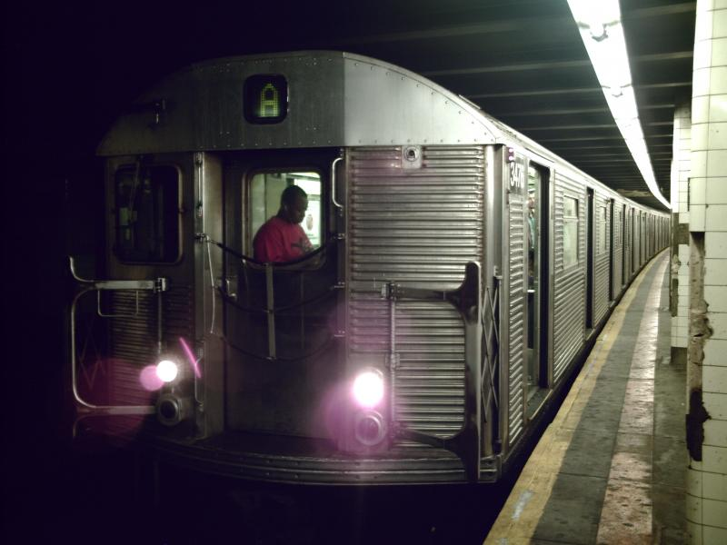 Queens-bound A train of R32s at Hoyt-Schermerhorn Streets